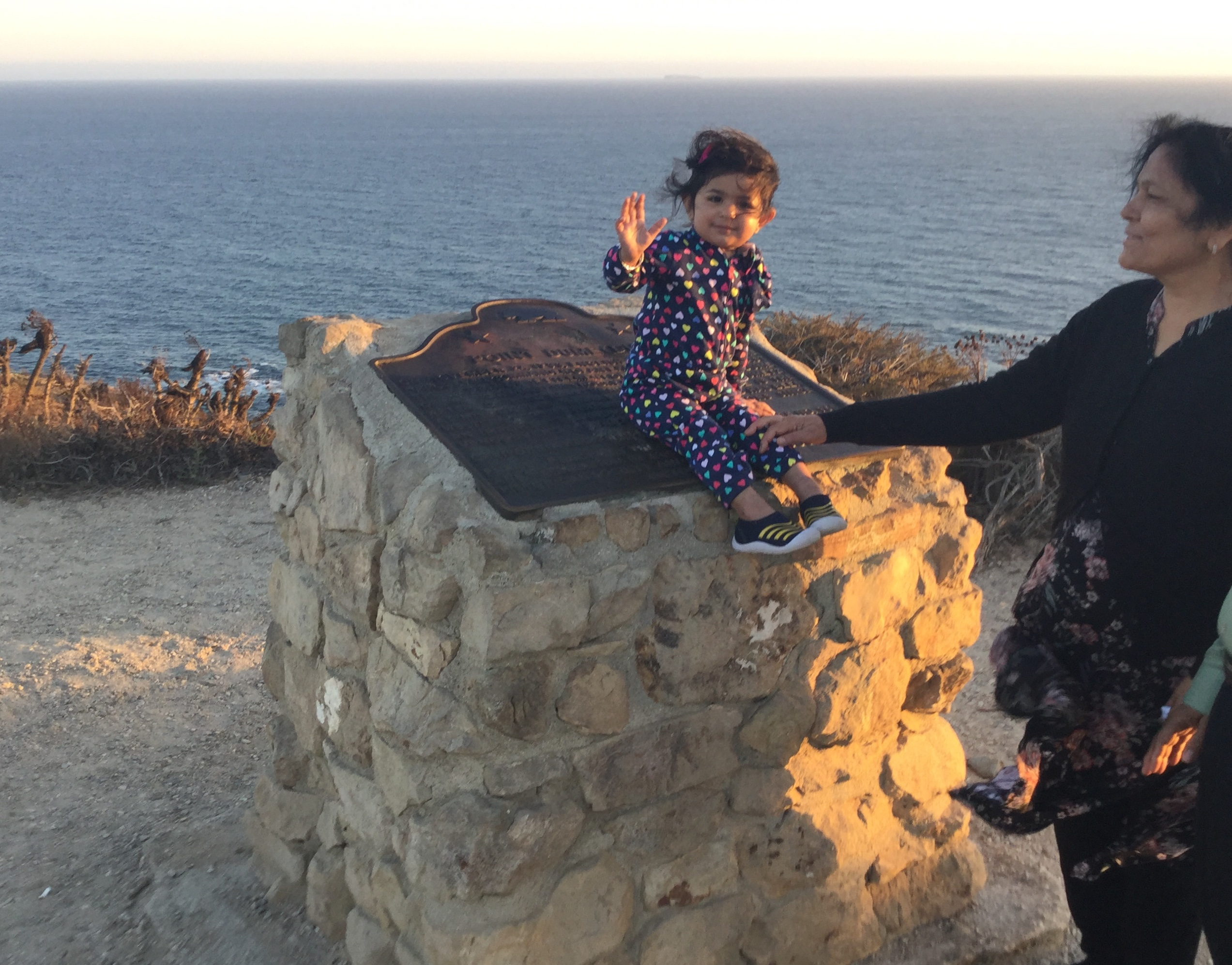 California Historical Monument 965